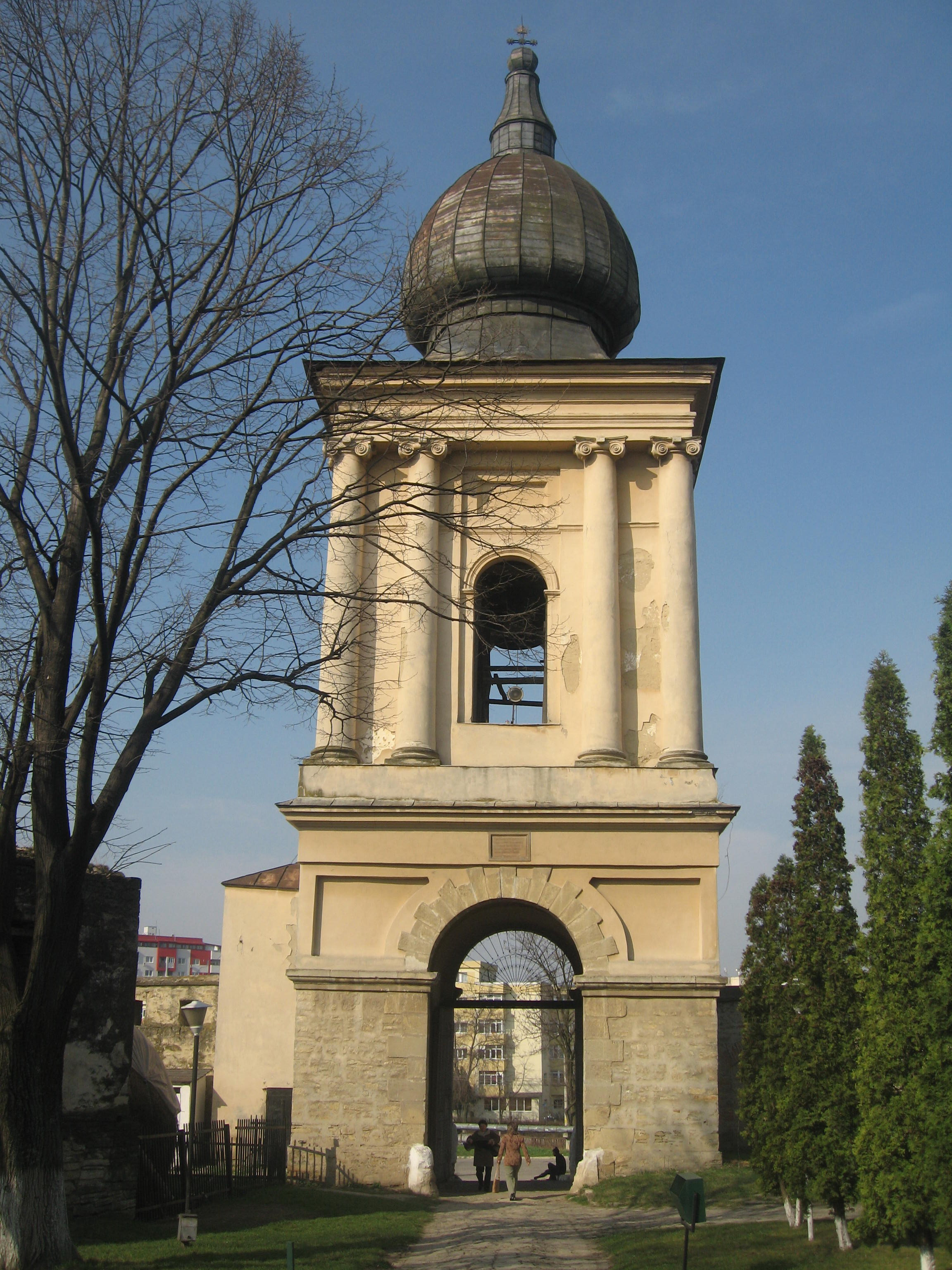 Frumoasa Monastery, Iași, Romania